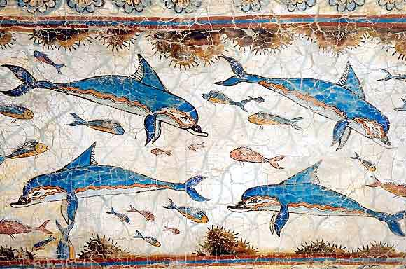 Fresco of Dolphines from the bronze age excavations of Knossos on the greek island of Crete